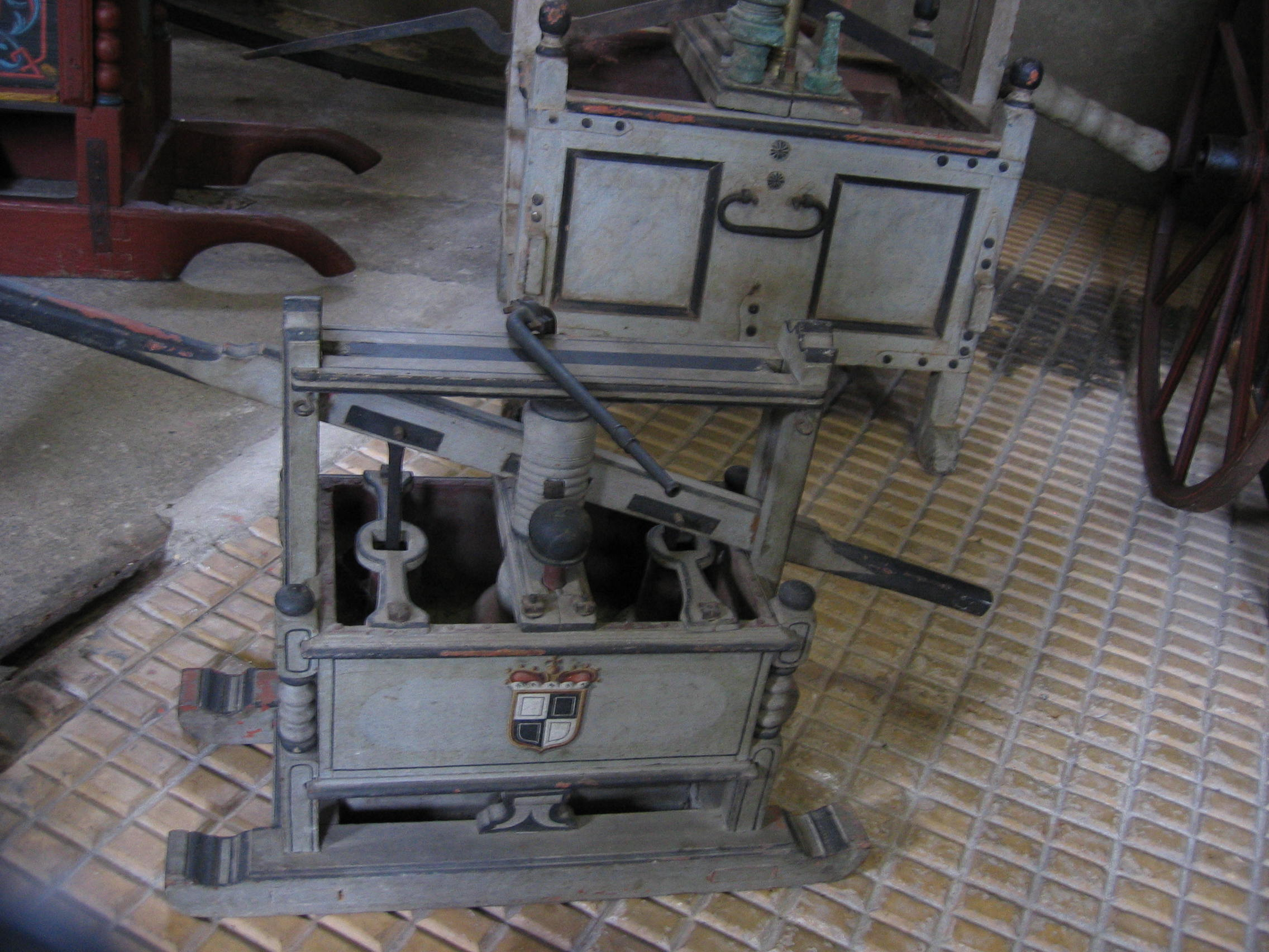 Hand operated fire fighting pump from the collection at Schloss Sigmaringen in Baden-Württemberg